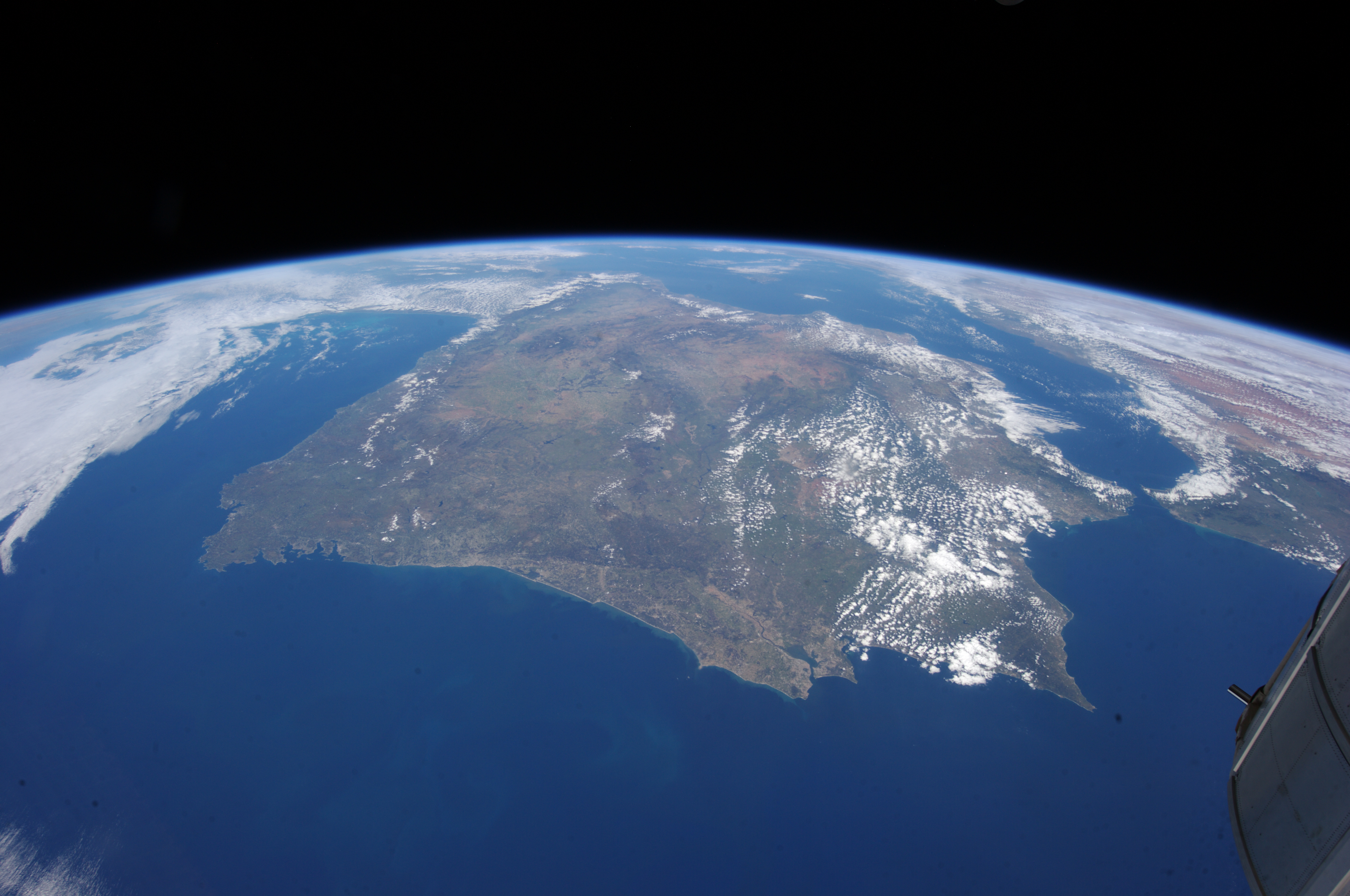 One of the Expedition 35 crew members aboard the International Space Station photographed this high oblique image of the Iberian Peninsula on April 23, 2013. This is one of the very few pictures in the history of the decades old NASA-managed human-tended space program that shows the entire peninsula, with Portugal, Spain and Gibraltar. The Strait of Gibraltar (right center) is a narrow strait that connects the Atlantic Ocean to the Mediterranean Sea and separates Gibraltar and Spain in Europe from Morocco (far right center)in Africa. Europe and Africa are separated by 7.7 nautical miles (14.3 kilometers or 8.9 statute miles) of ocean at the strait's narrowest point. A small part of France is barely visible at the horizon (top center).